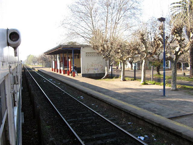 Don Bosco Train Station